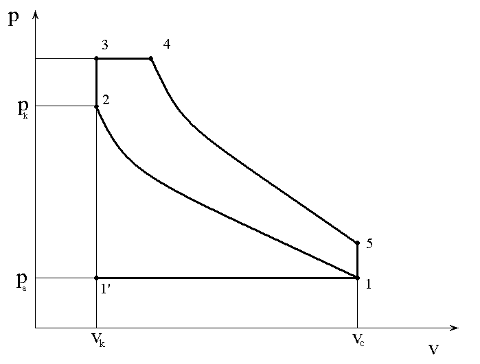 theoretical diagram of basic Sabathe process